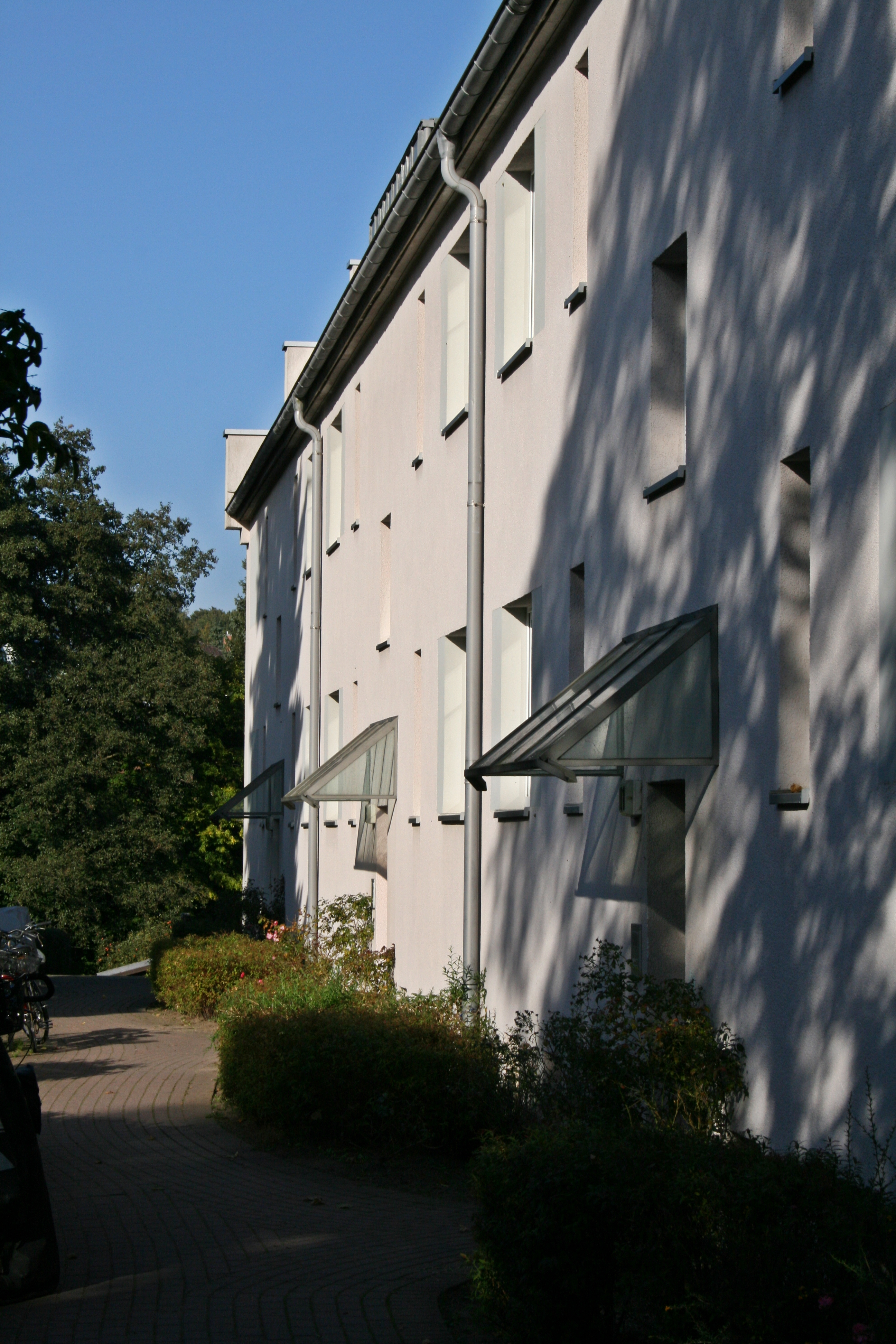 The buildings August-Bebel-Straße 103 and 105 in Hamburg-Bergedorf, where the victims od Nazism Claus Beeck und Margot Fischbeck lived